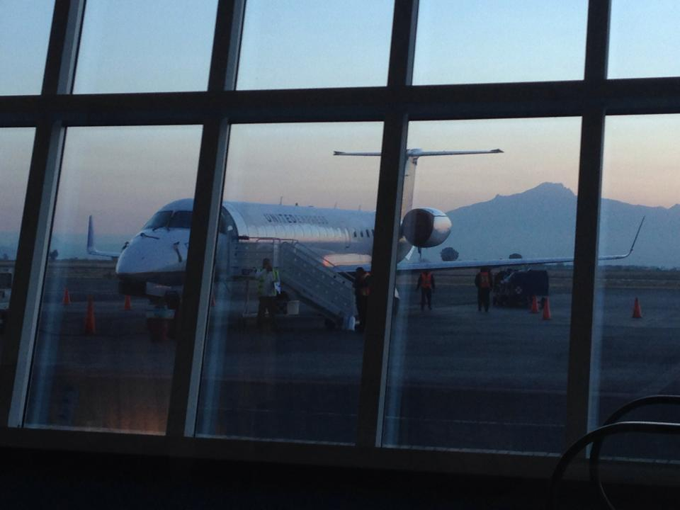 @Airport PBC; United Express airplane Embraer ERJ 145, Malinche mountain